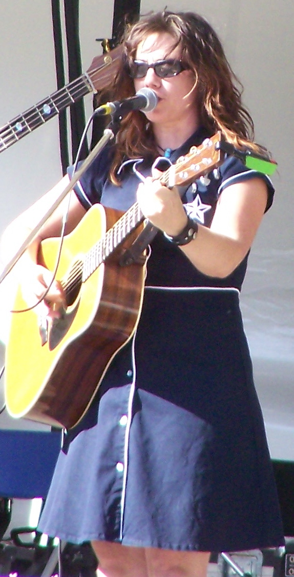 Cara Luft performs at the free Canada Day 2007 concert at Olympic Plaza in Calgary, Alberta, Canada. This image was cropped, to only show Luft.